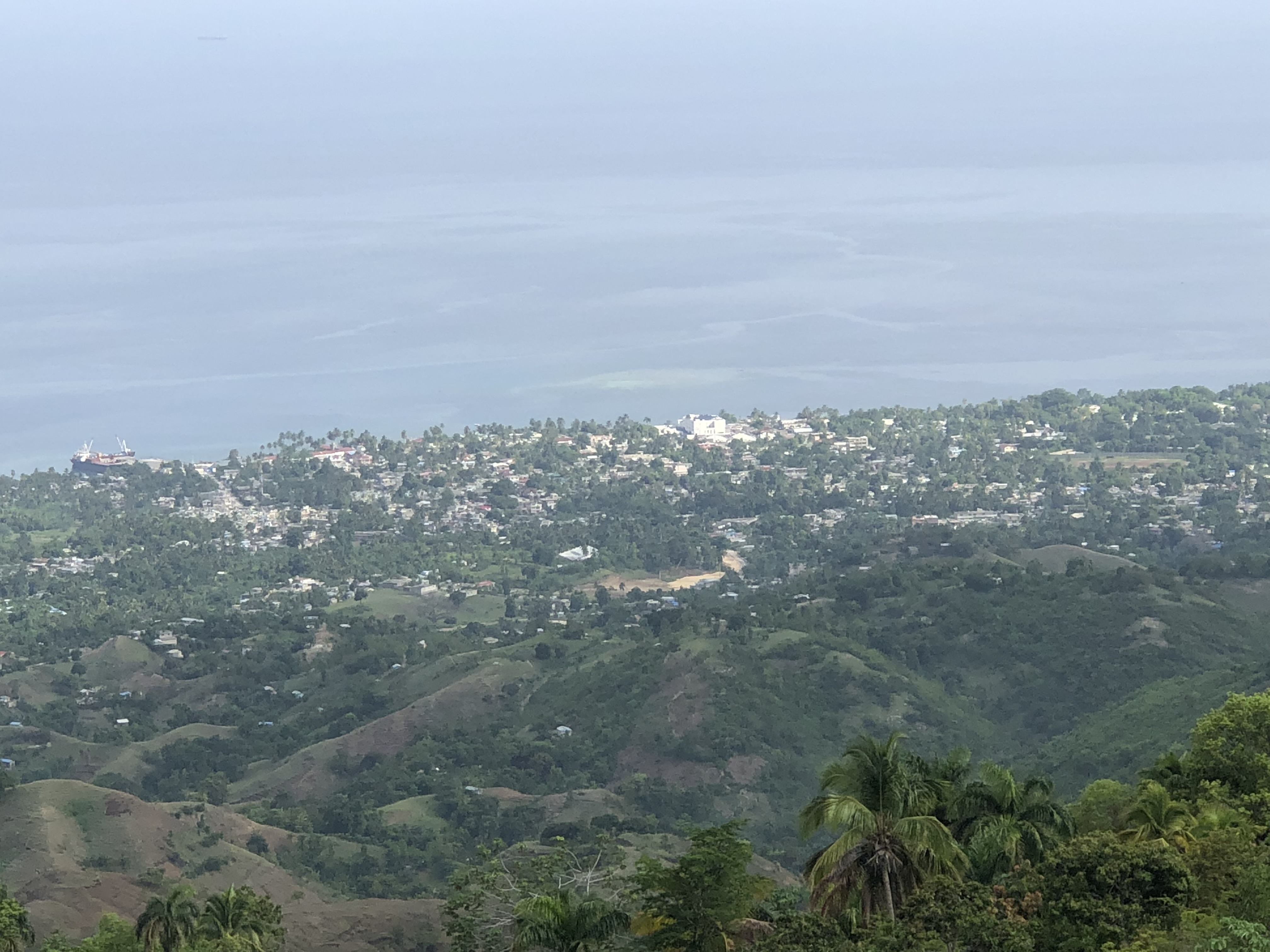 View of the town of Petit-Goâve in the Haiti. Taken from the mountains in the hinterland.